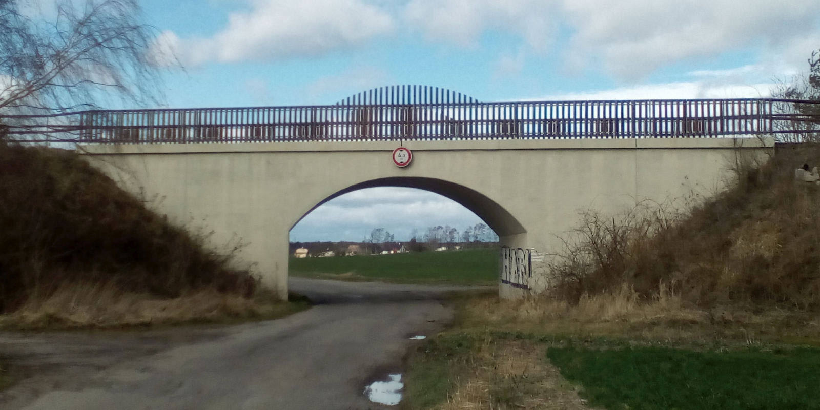 A concrete bridge providing a cycling track over a rural road, with picket fence above. The different distance of the front and rear fence create moiré.